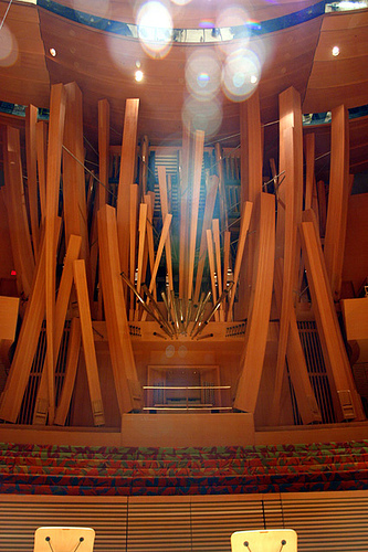 Walt Disney Concert Hall by Frank Gehry, view of the organ.